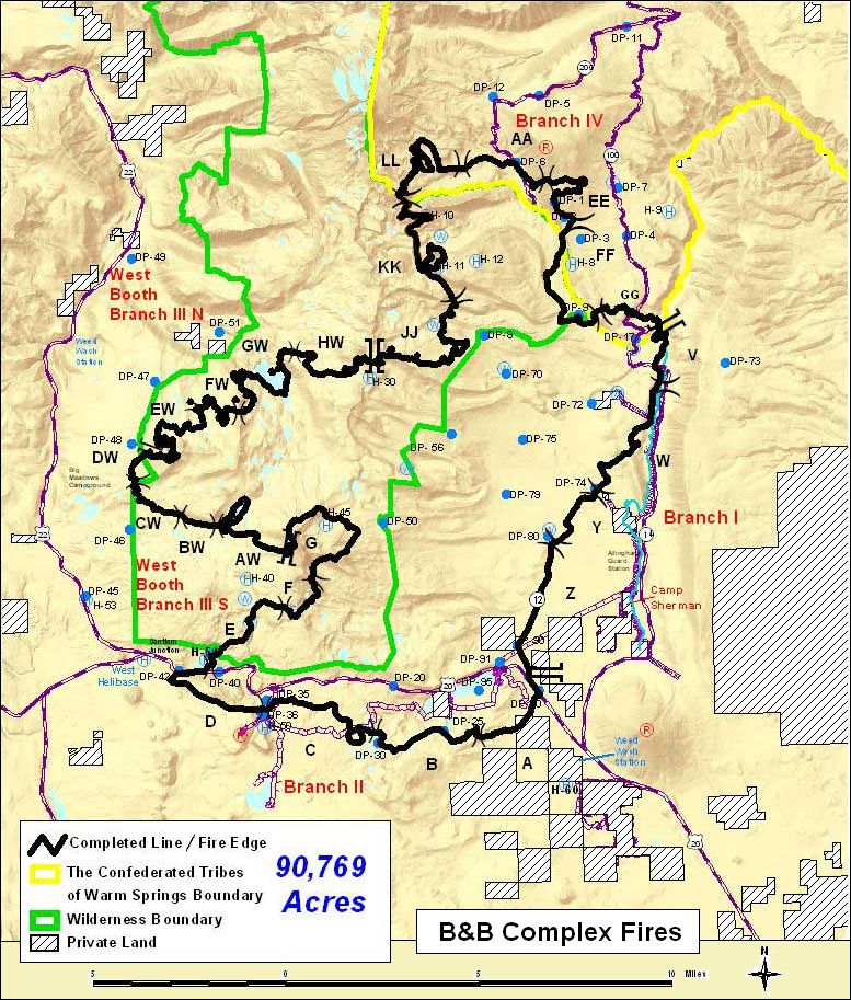 Post-fire map for the 90,769 acre B&B Complex Fires in the Cascade Mountains of Oregon, September 2003